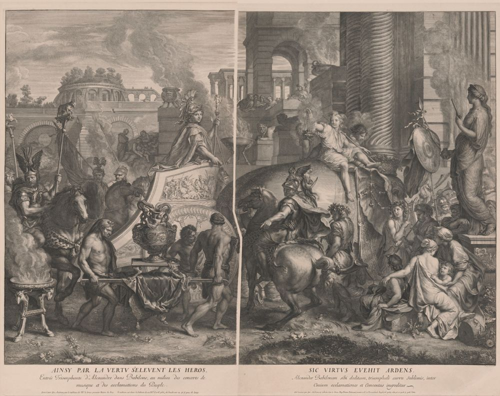 Gérard Audran's engraving reproduces, in two plates, Charles Le Brun's painting 'Alexander Entering Babylon' (Musée du Louvre, inv. no. 2898), which was completed c. 1665.